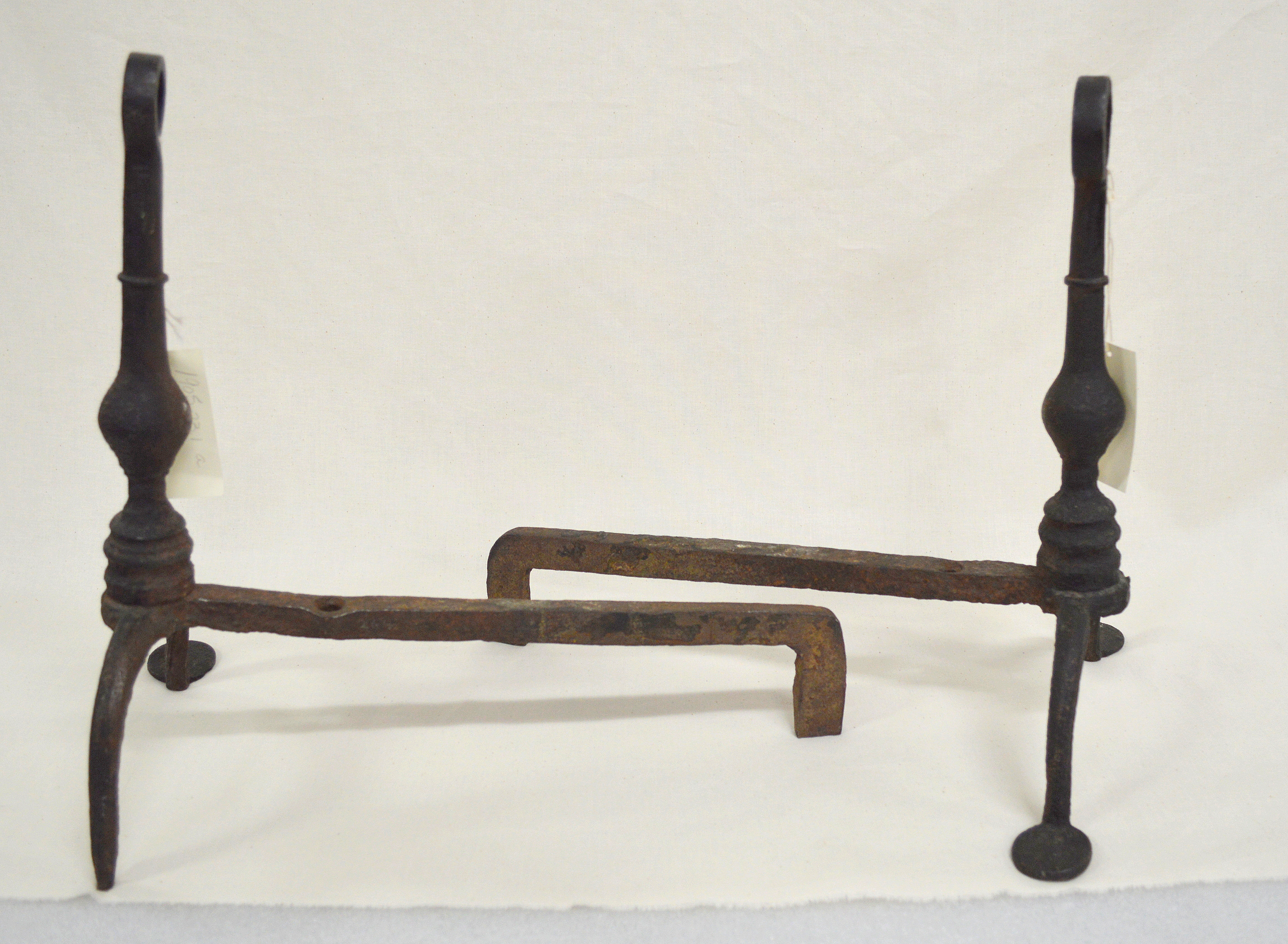 Pair of hand wrought metal andirons.Title: Hand-wrought Metal Andiron Set